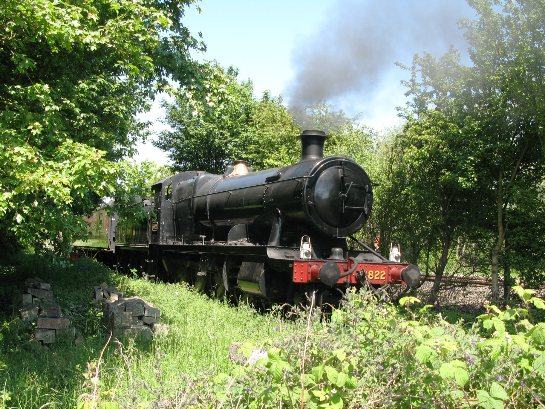 Preserved Great Western Railway 2884 class 2-8-0 locomotive number 3822 running on the demonstration line at Didcot railway Centre, England. It is austerity black livery which complements the austerity khaki of the leading coach. The track in the background is Network Rail's Didcot East Curve which carries non-stopping trains between Oxford (left) and Reading (right)